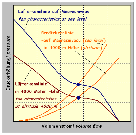 Modification of the fan characteristics and of the operating point for the altitude variation. Example: Axial fan at see level (air density 1.118 kg/m3) and at 400 Meter altitude (air density 0.722 kg/m3). The 4000-meter characteristics was calculated from the see-level characteristics using the fan laws.